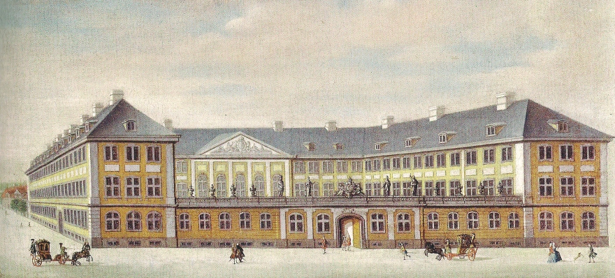 Prinsens Palæ in Copenhagen, Denmark